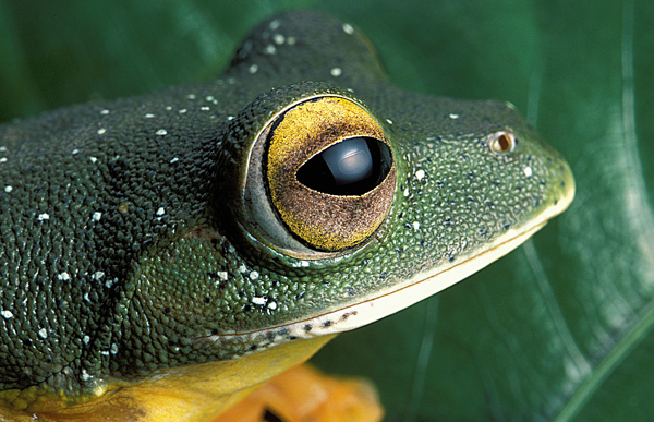 Malabar gliding frog Rhacophorous malabaricus photographed in kerala